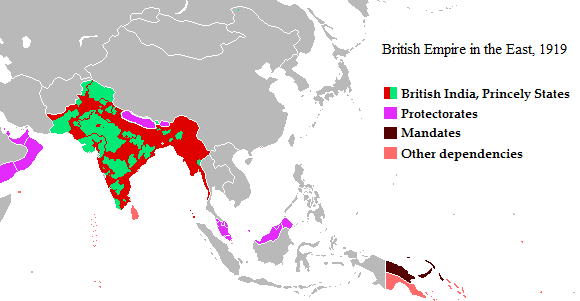 british empire in east 1919